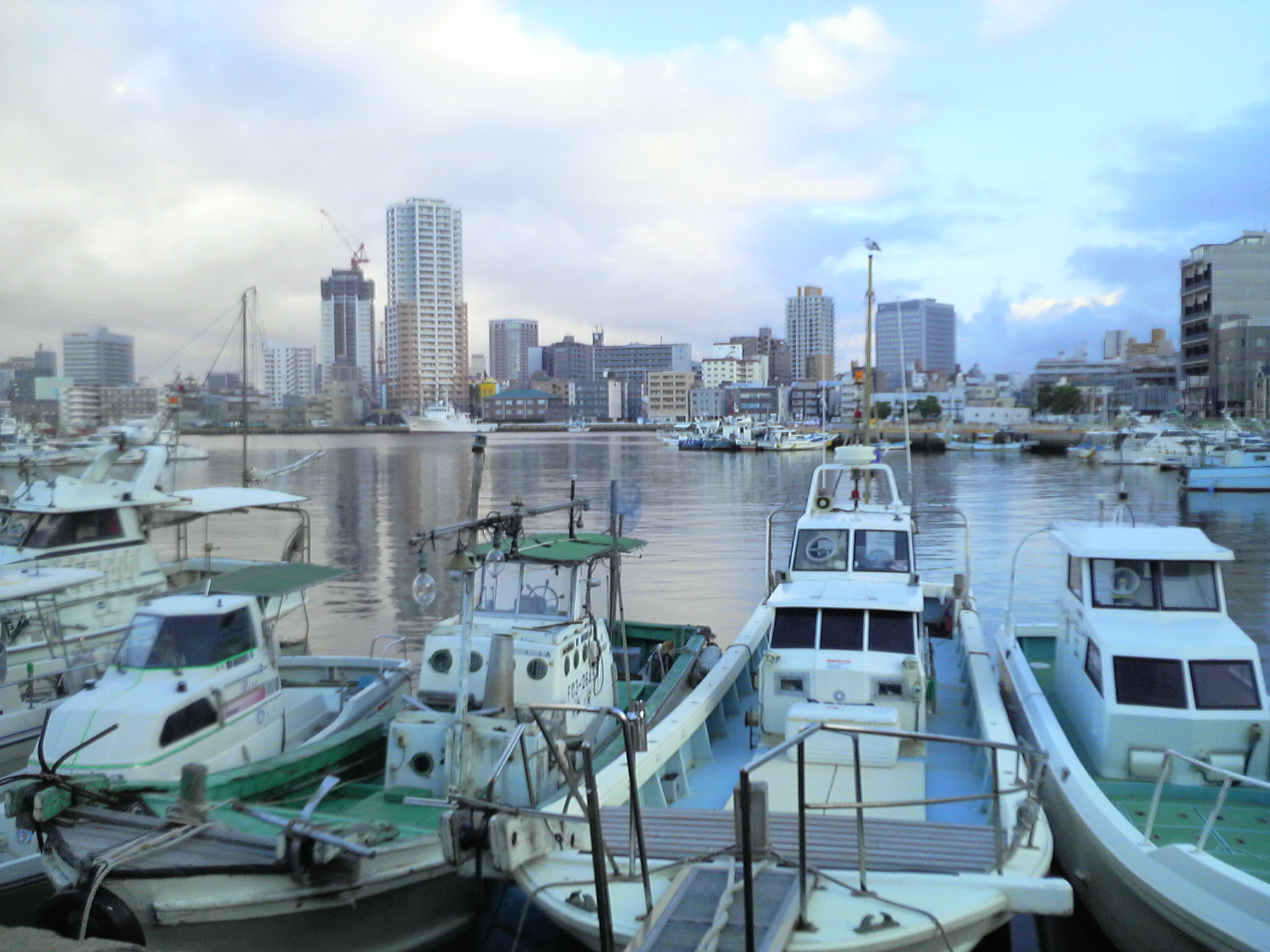 Hakata Fish Port